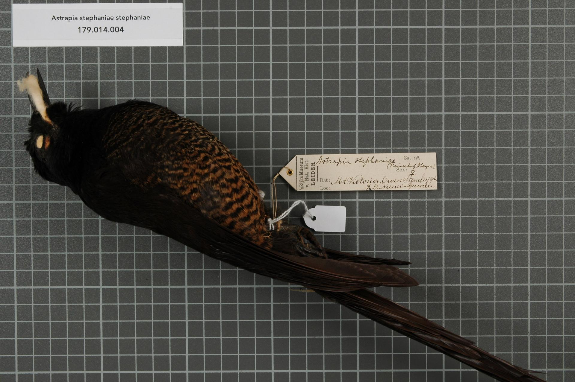 Astrapia stephaniae stephaniae (Finsch, 1885)